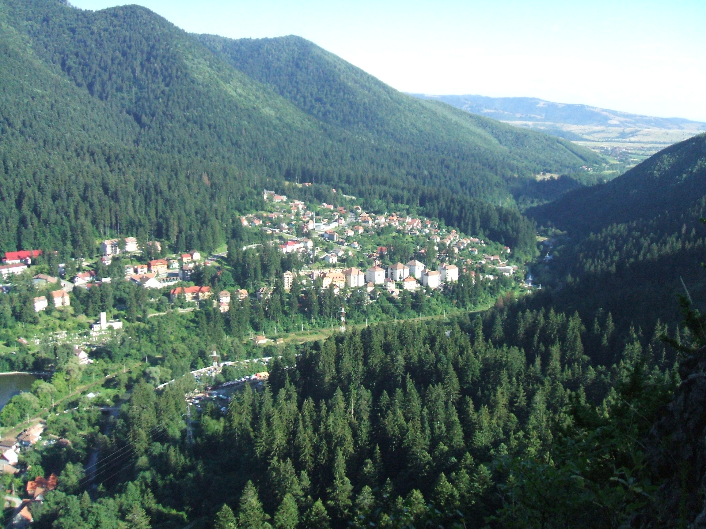 Tusnádfürdő environment hills, view from Sólyom-kő tophill